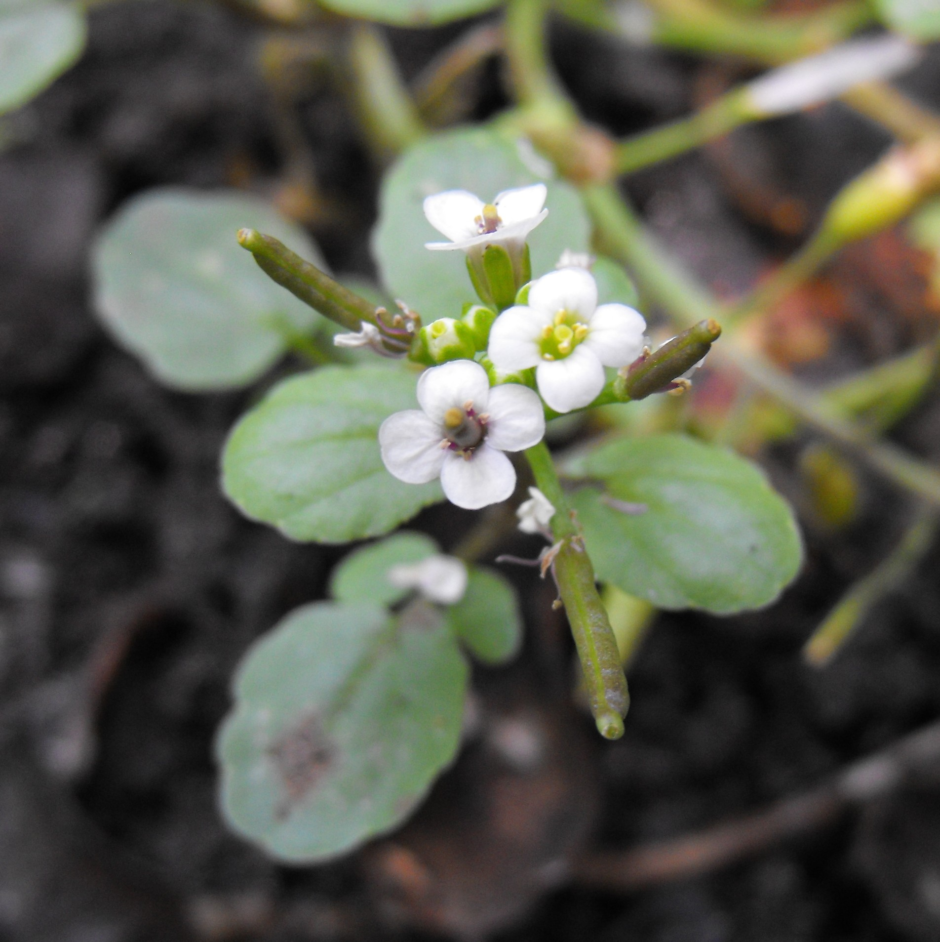 Watercress, Rorippa nasturtium-aquaticum, at Blue Sky Ecological Reserve in Poway, California, USA.